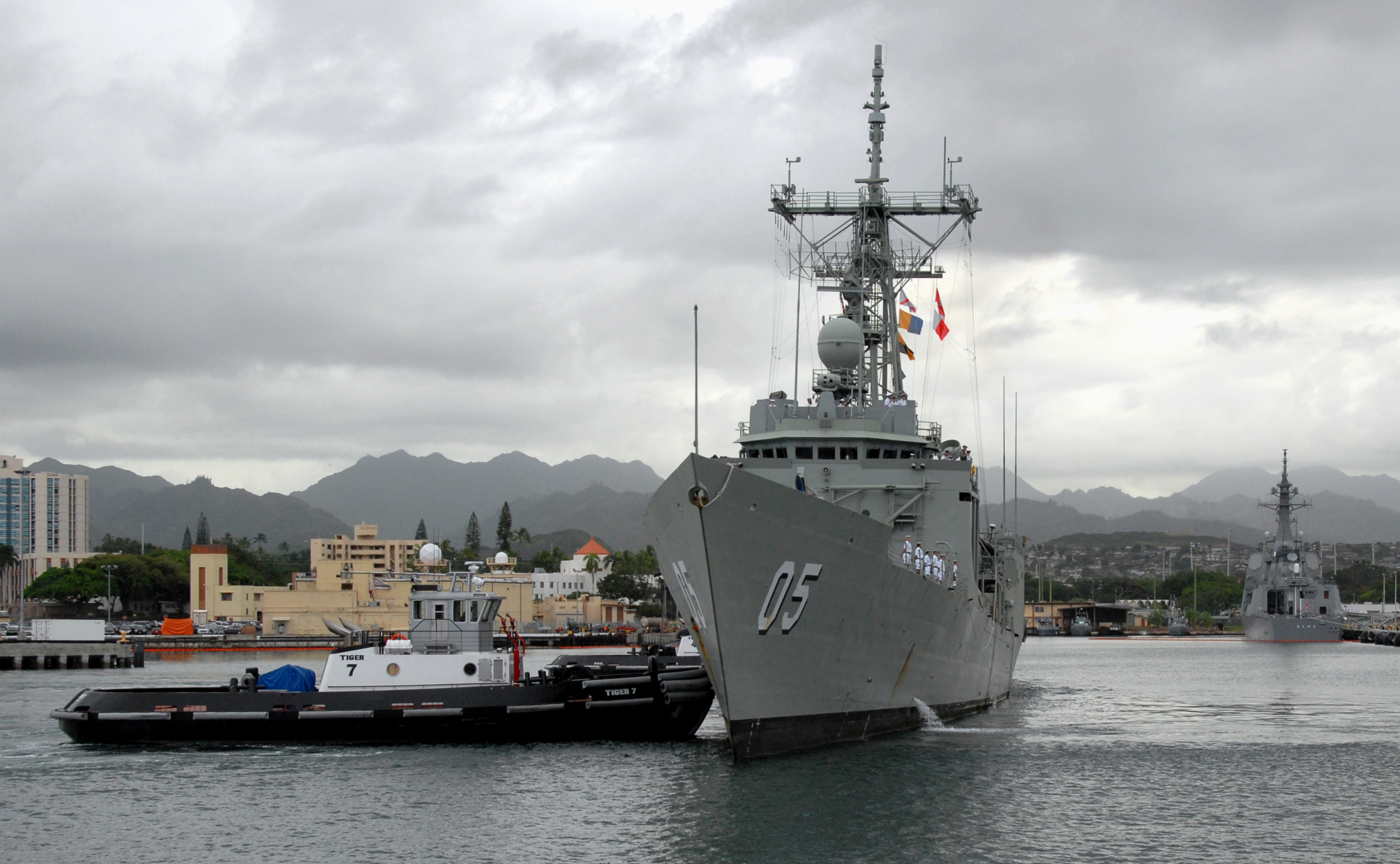 090126-N-3666S-034 PEARL HARBOR (Jan. 26, 2009) The Royal Australian Navy guided-missile frigate HMAS Melbourne, FFG 05, arrives at Naval Station Pearl Harbor for a routine port visit.